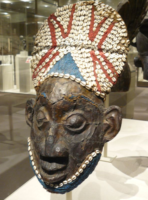 Helmet Mask, Before 1880 Cameroon; Bamum Wood, copper, glass beads, raffia, cowrie shells; H x W x D: 26 x 14 x 10 3/4 in. (66 x 35.6 x 27.3 cm) The Metropolitan Museum of Art, New York, The Michael C. Rockefeller Memorial Collection, Purchase, Nelson A. Rockefeller Gift, 1967 (1978.412.560) View at the Metropolitan Museum of Art website Wikipedia Loves Art at the Metropolitan Museum of Art This photo of item # 1978.412.560 at the Metropolitan Museum of Art was contributed under the team name "trish" as part of the Wikipedia Loves Art project in February 2009. Metropolitan Museum of Art The original photograph on Flickr was taken by Trish Mayo—please add a comment to the original Flickr page whenever a use has been made on Wikipedia or another project. Project galleries on Flickr: this institution, this team